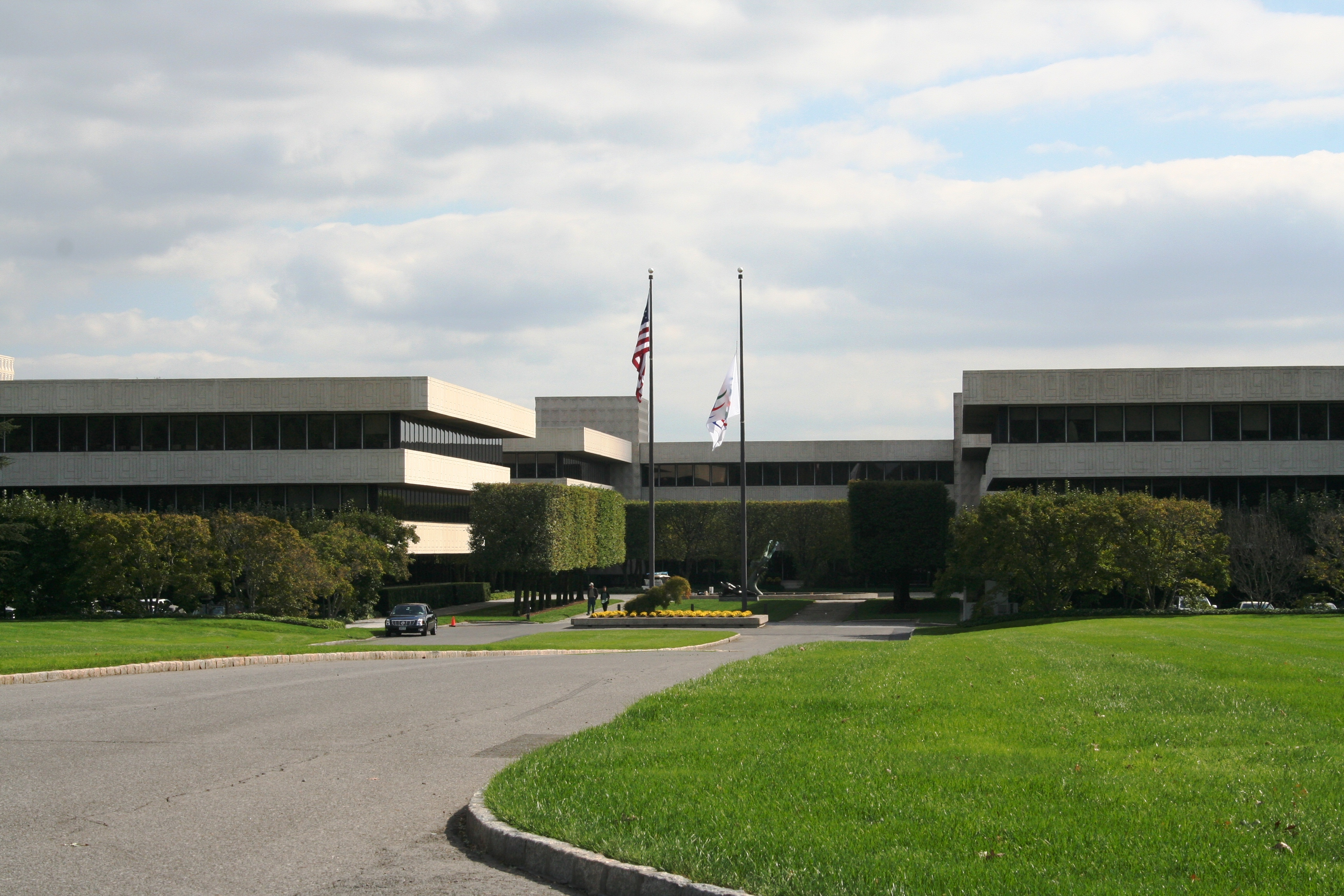 PepsiCo world headquarters